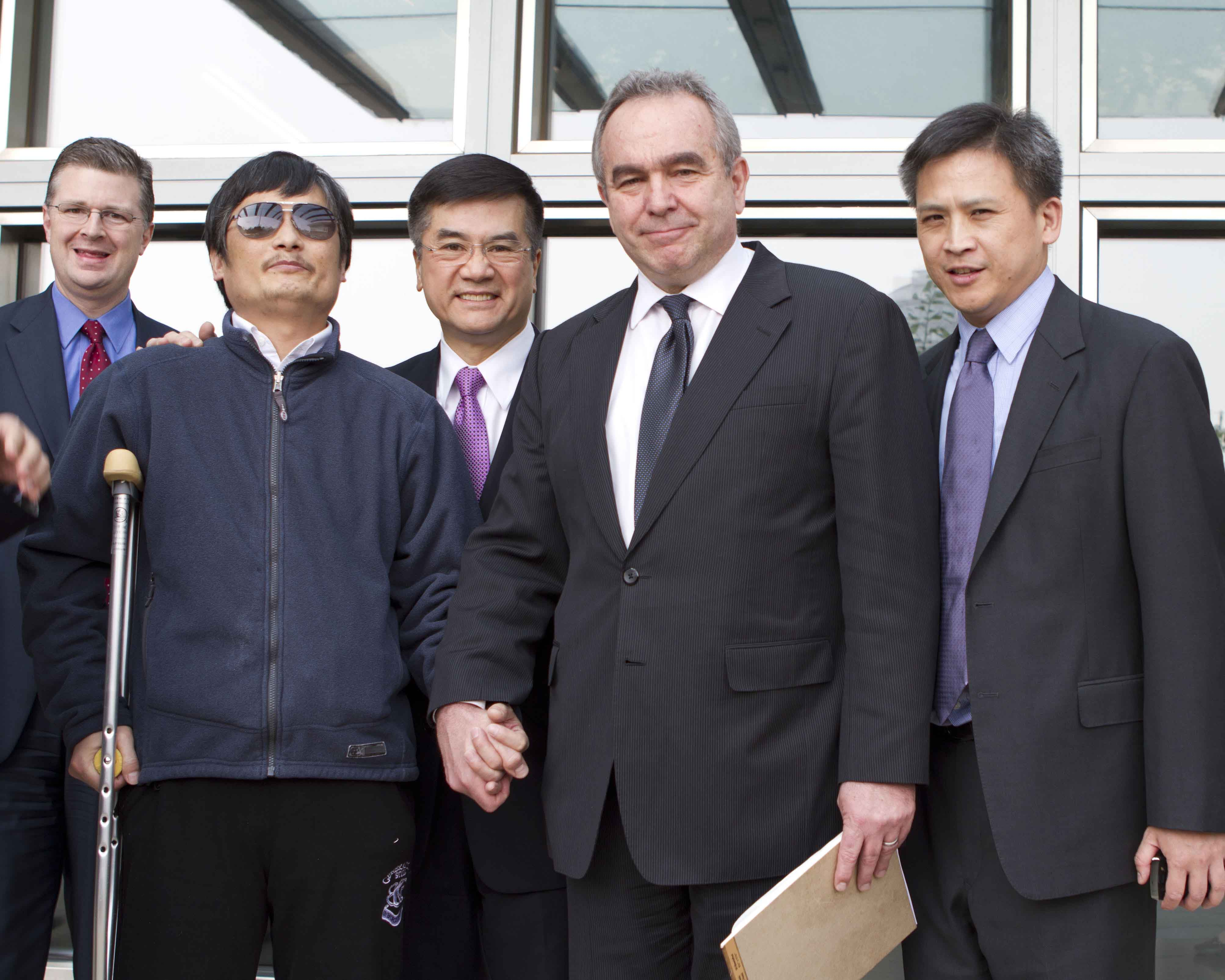 Assistant Secretary of State for East Asian and Pacific Affairs Kurt Campbell, second from right; U.S. Ambassador to China Gary Locke, center; Deputy Assistant Secretary of State for East Asian and Pacific Affairs, Kin W. Moy, first from right; and Chen Guangcheng, second from left; at the U.S. Embassy in Beijing, China, on May 1, 2012. [State Department photo/ Public Domain]